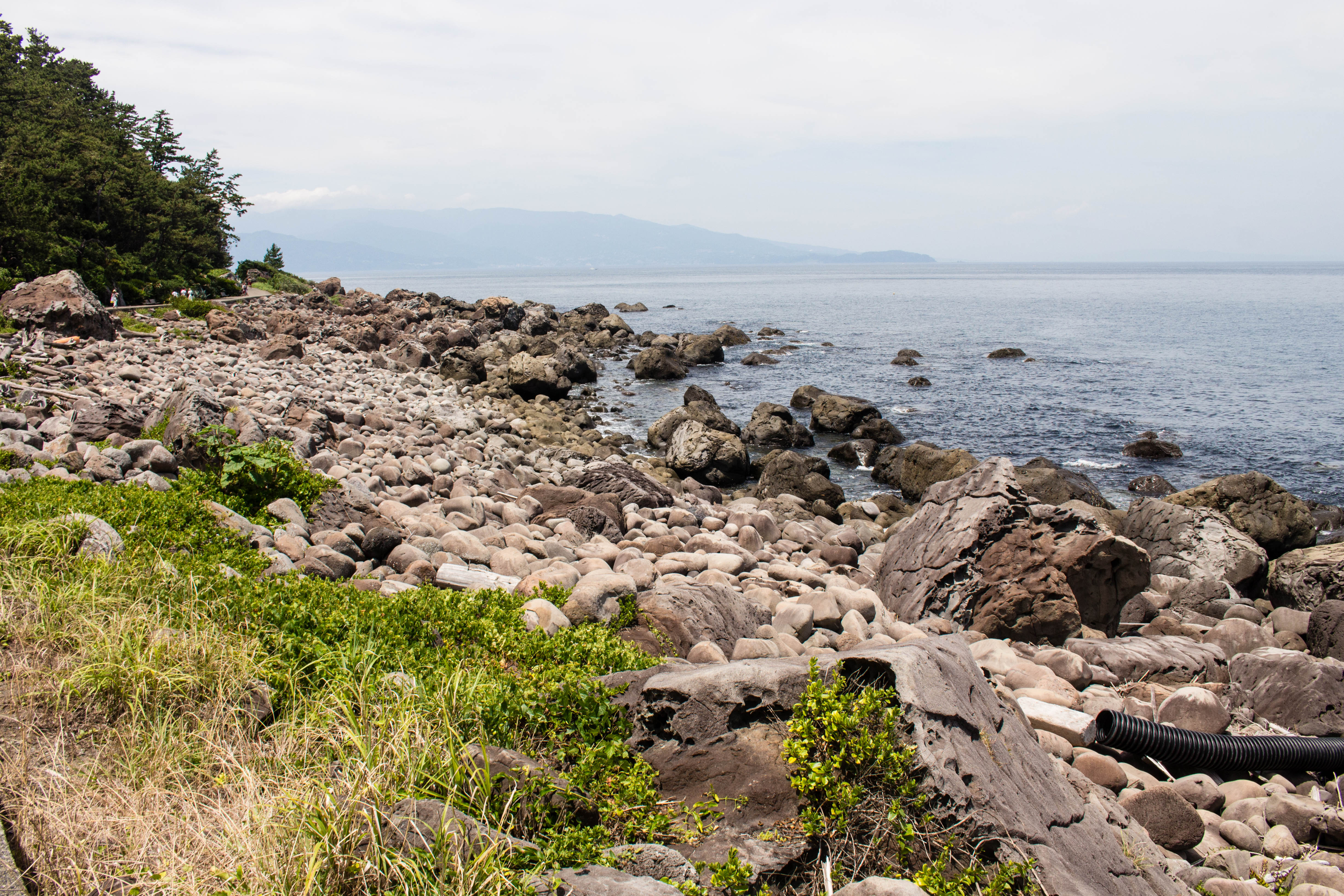 Beach of Hatsushima.